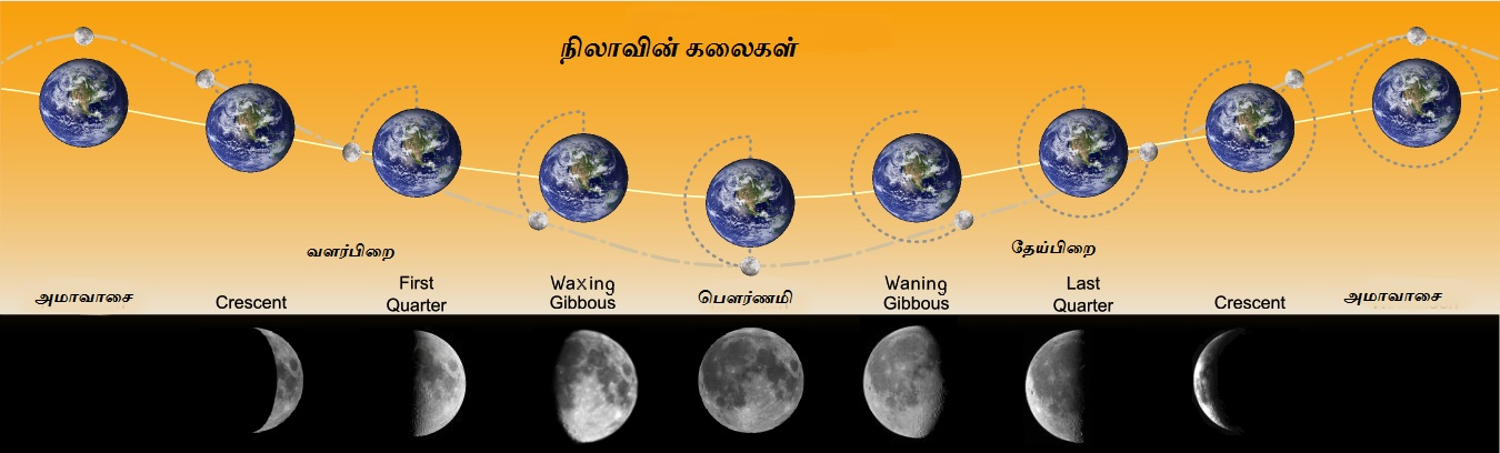 This file was derived from: Phases of the Moon.png